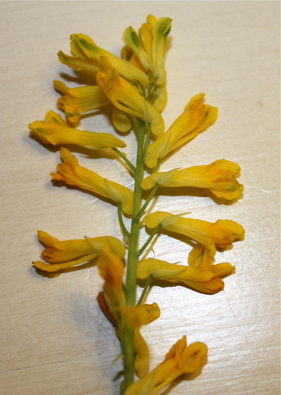 Pseudofumaria lutea (syn. Corydalis lutea)